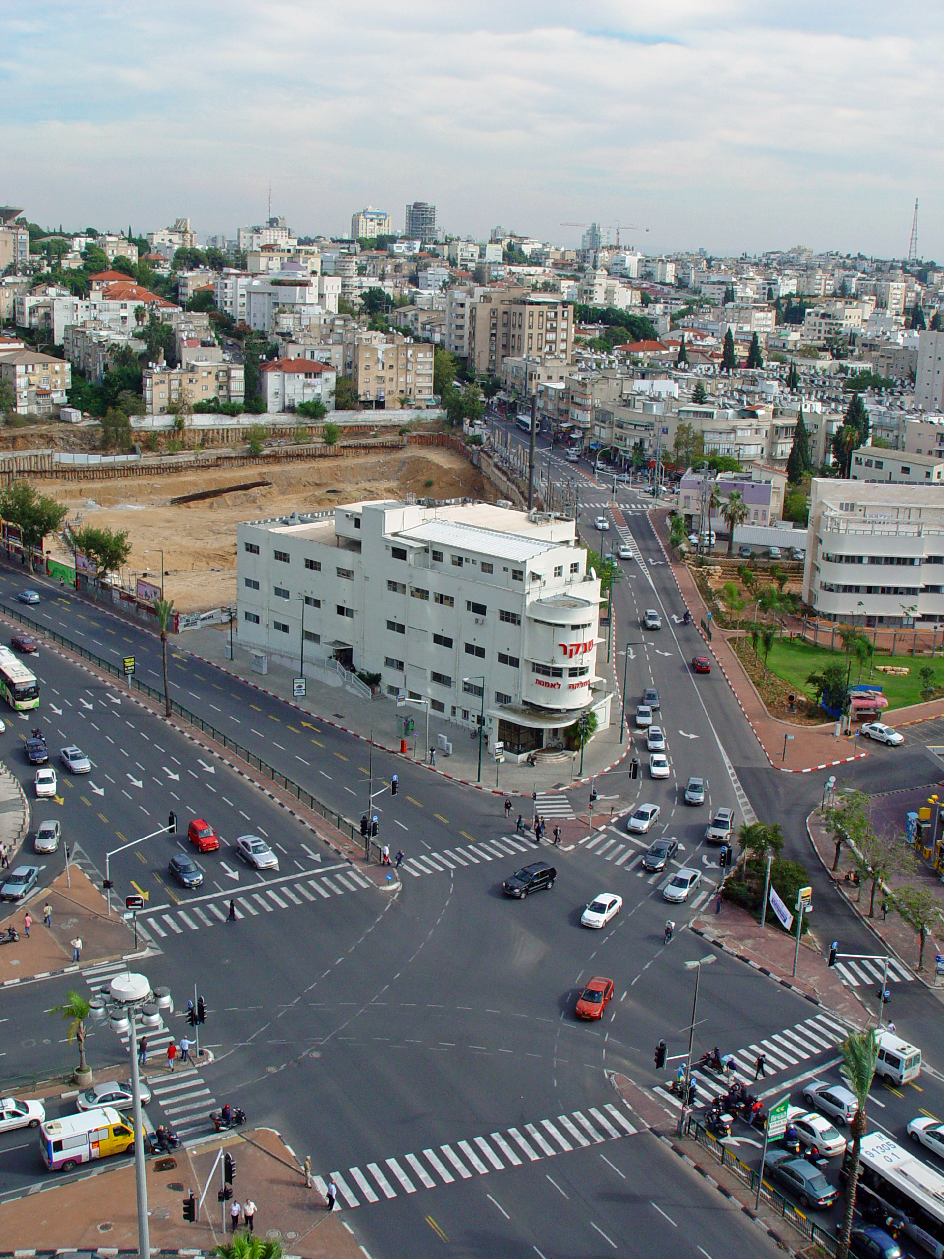 Elite Junction in Ramat Gan, Israel